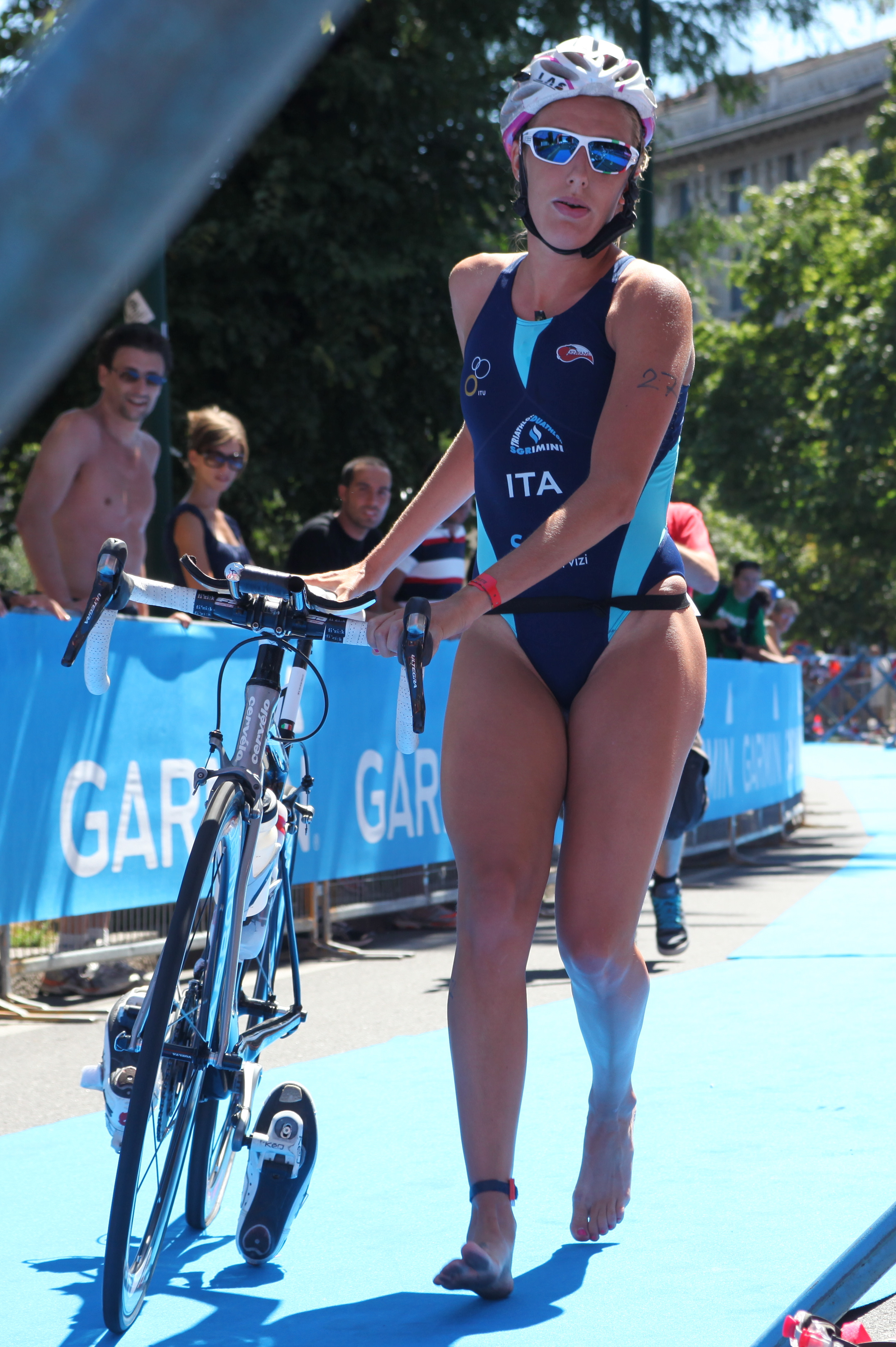 Italian Triathlete Gaia Peron at the 2010 Garmin Milano City Triathlon